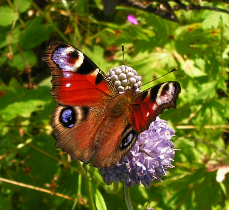 The european peacock (Inachis io) on the inflorescence of the devil's bit scabious (Succisa pratensis). Moscow region, Russia.